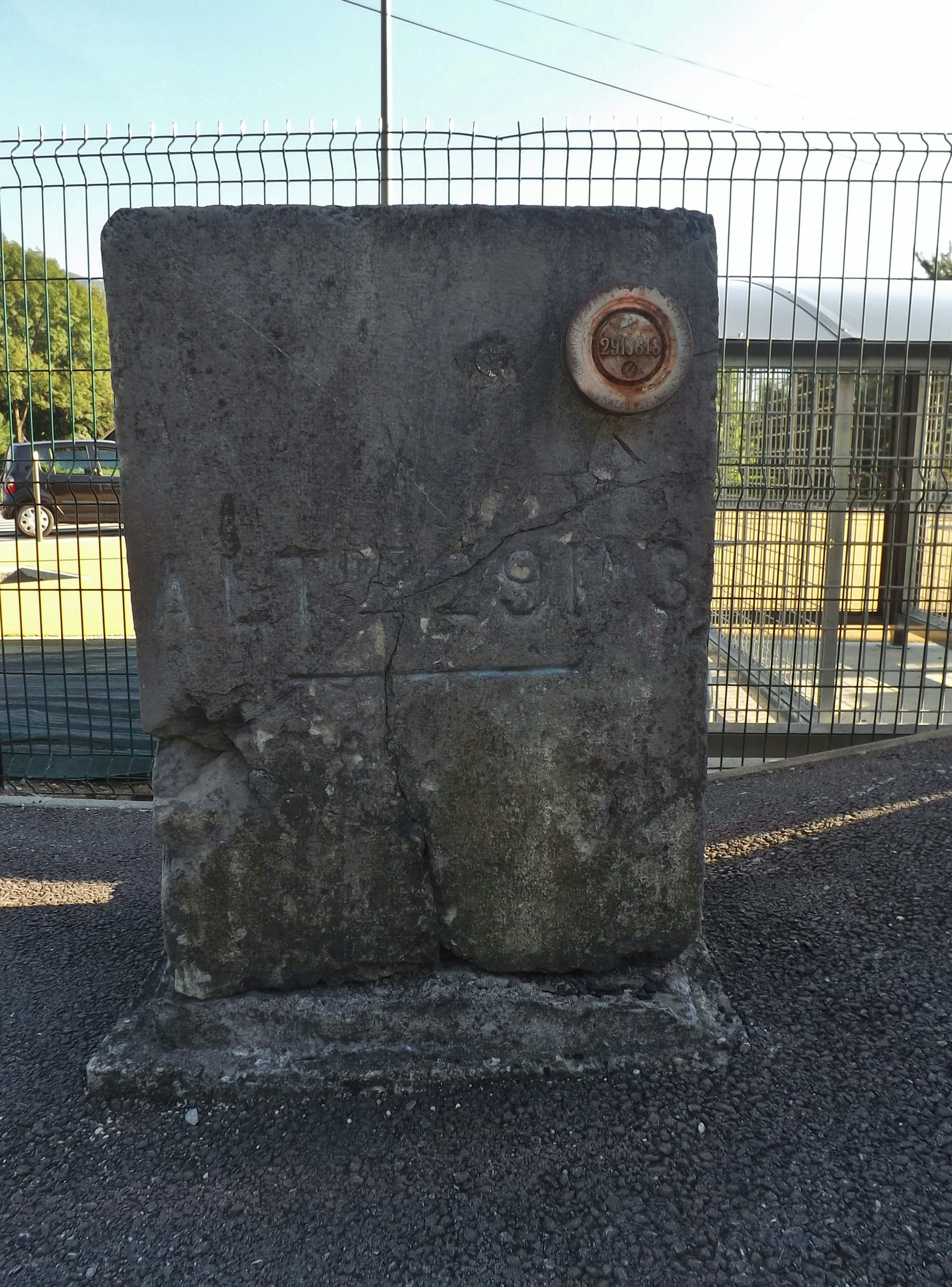 The only preserved stone of the previous gare de Chamousset railsay station building, indicating with its benchmark the altitud of 291,3 meters high, in Savoie, France.